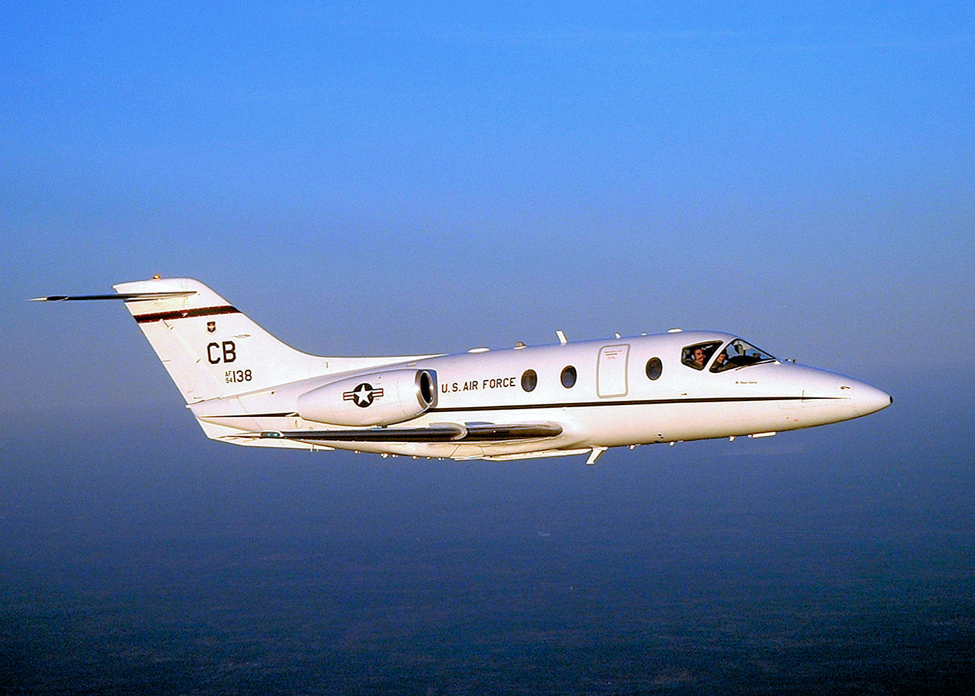 48th Flying Training Squadron Beech Raytheon T-1A Jayhawk 94-0138 Columbus AFB Mississippi